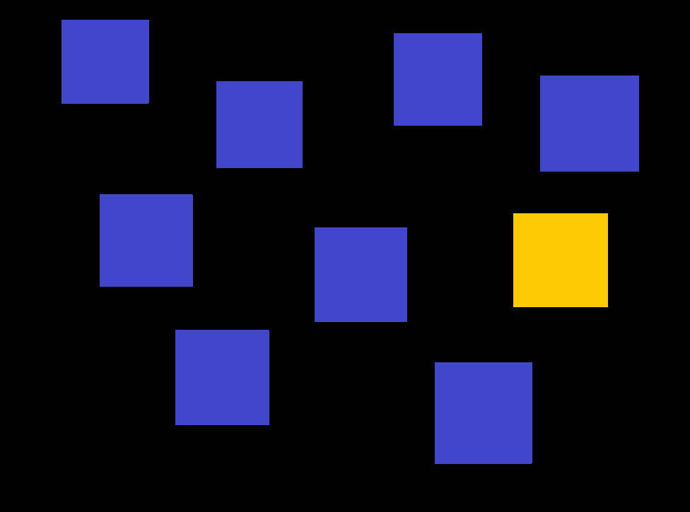 An example screen of the corsi block-tapping test